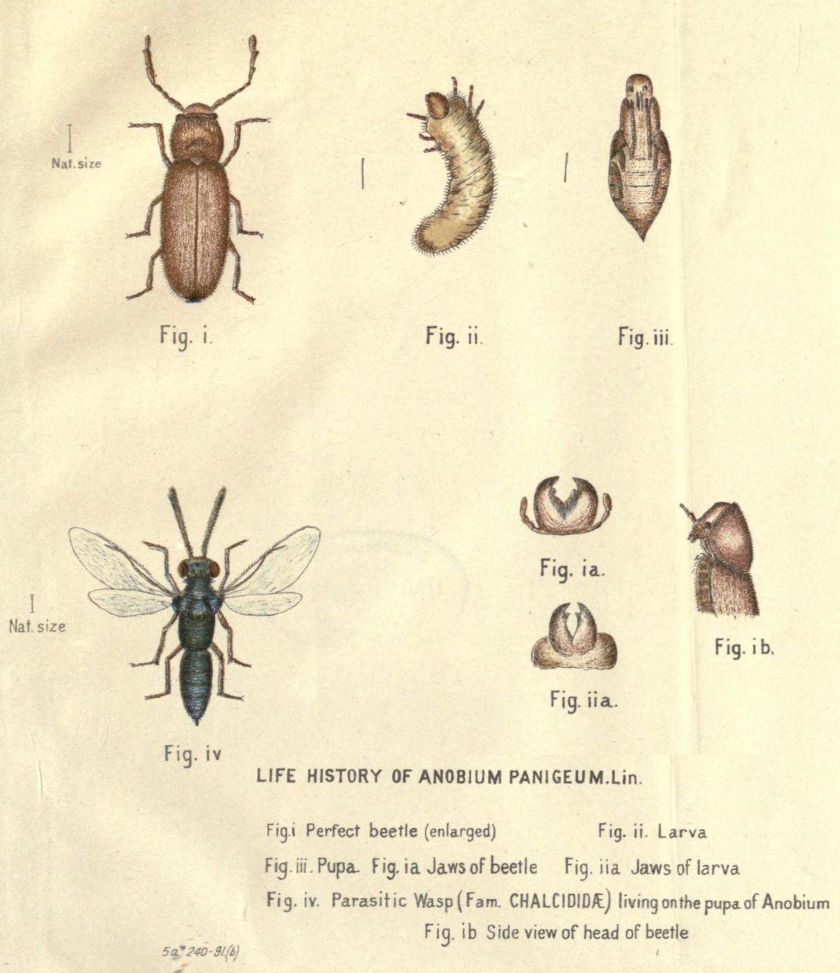 The life history of Stegobium paniceum (syn. Anobium paniceum) (Walter W. Froggatt, Report on a beetle destroying boots & shoes in Sydney, Sydney, Department of Public Instruction, Technological Museum, coll. « Technical Education Series », n° 8, 1891)